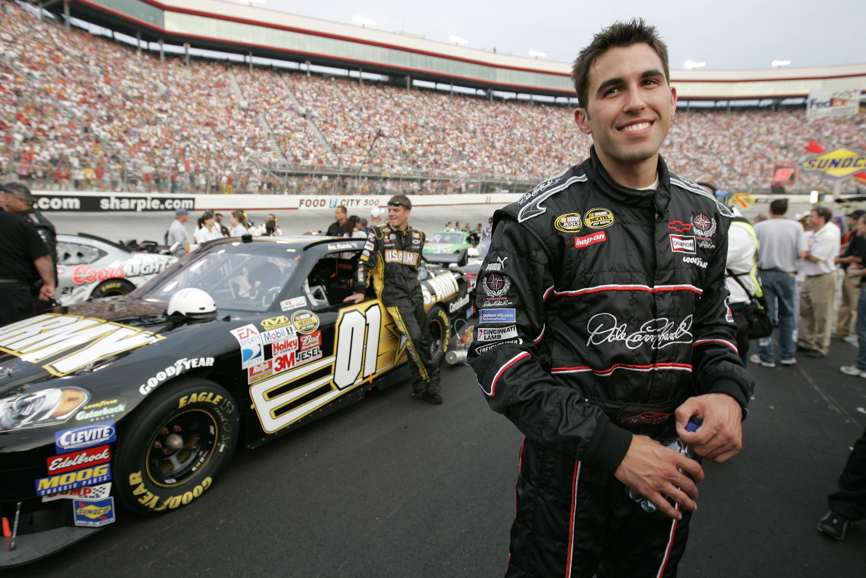 NASCAR driver Aric Almirola beside his racecar. Aric Almirola Fights Through Adversity at Bristol -- Photo by U.S. Army Racing -- August 27, 2007 -- Aric Almirola finished in 36th place in Saturday night\'s Nextel Cup race at Bristol Motor Speedway. [1]